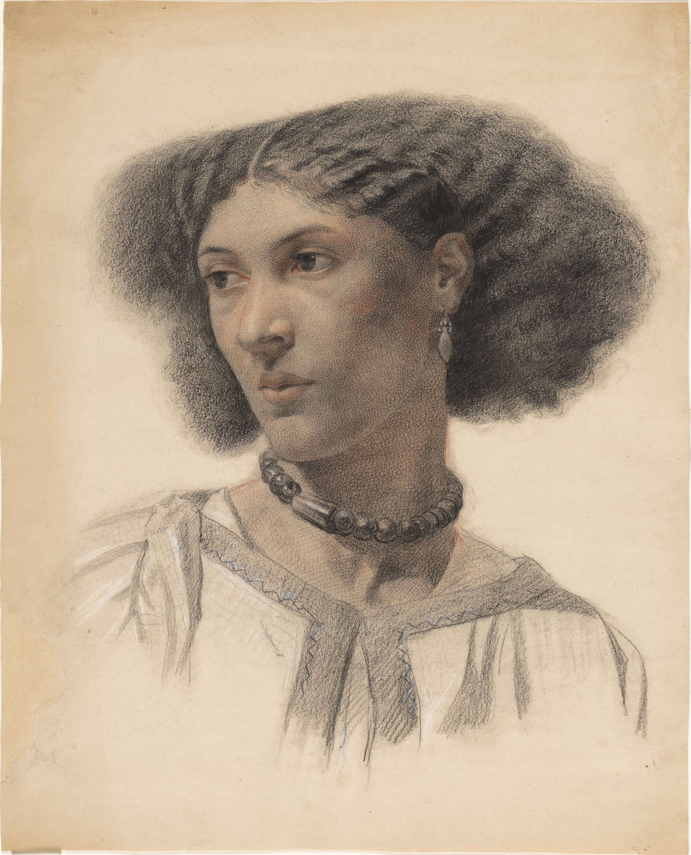 This is a portrait of the mixed-race model Fanny Eaton, who moved with her mother, a former slave, from Jamaica to London in the 1840s. Married to a cab driver in 1857, Eaton worked as a cleaner and cook while posing for many Pre-Raphaelite painters—including Dante Gabriel Rossetti, who adapted her distinctive beauty to fit different ethnic roles—Hebrew, African, Indian—in biblical and genre scenes. Best known as a minor landscape watercolorist, Walter Fryer Stocks was still a teenager when he made this highly finished drawing, in which he used a meticulous stippled chalk technique to highly expressive effect, conveying an alluring and introspective sensuality in the sitter’s asymmetrical glance and parted lips.